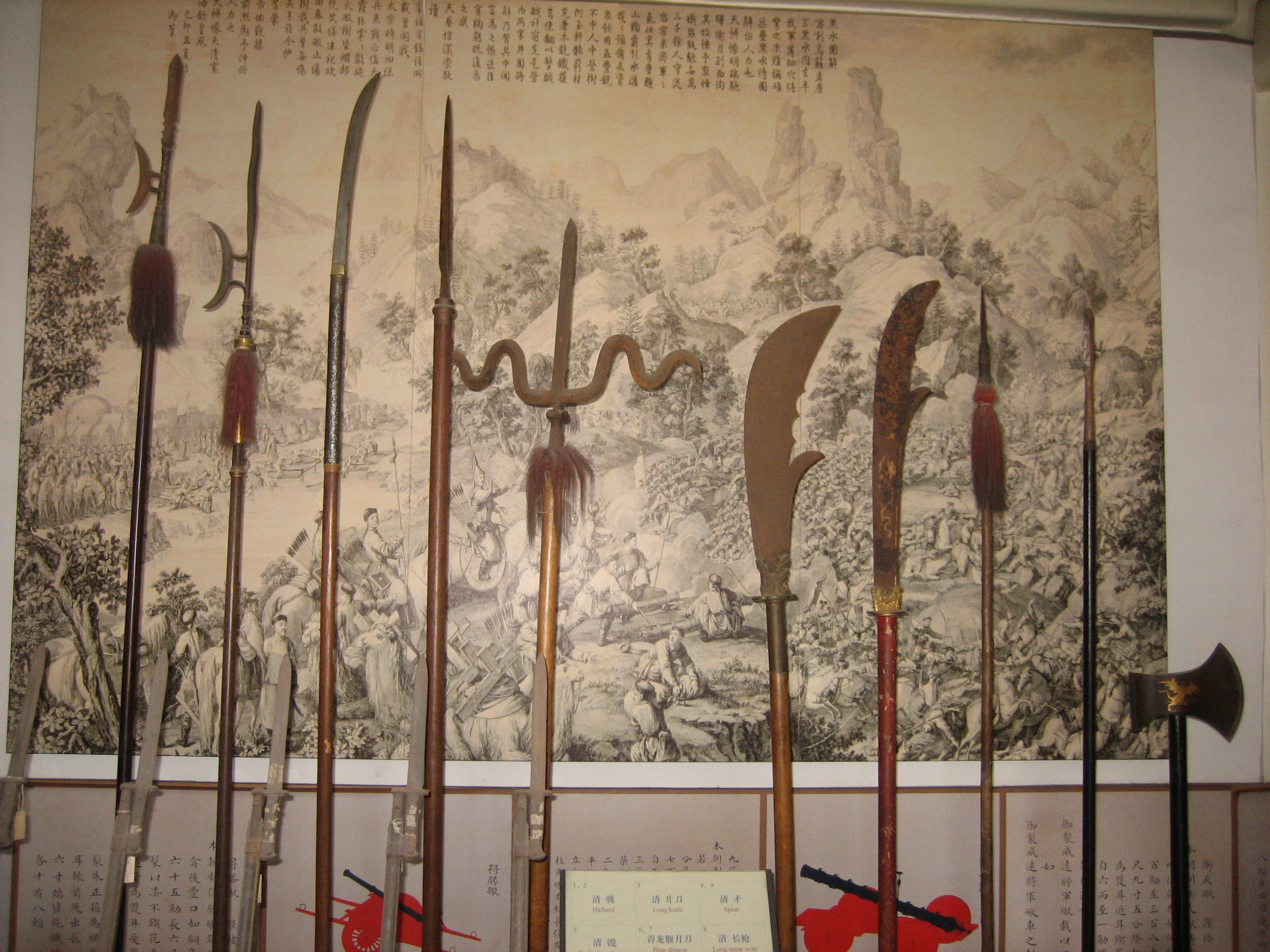 Art collection in the Forbidden City, Beijing